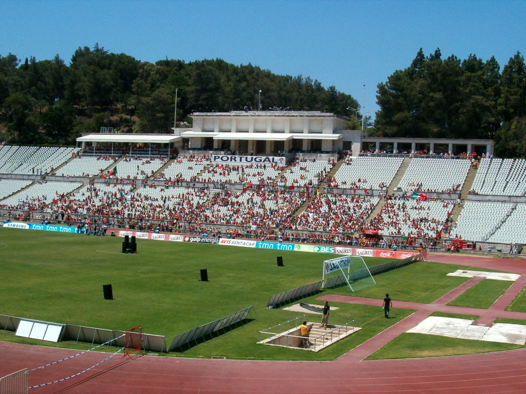 Jamor Stadium